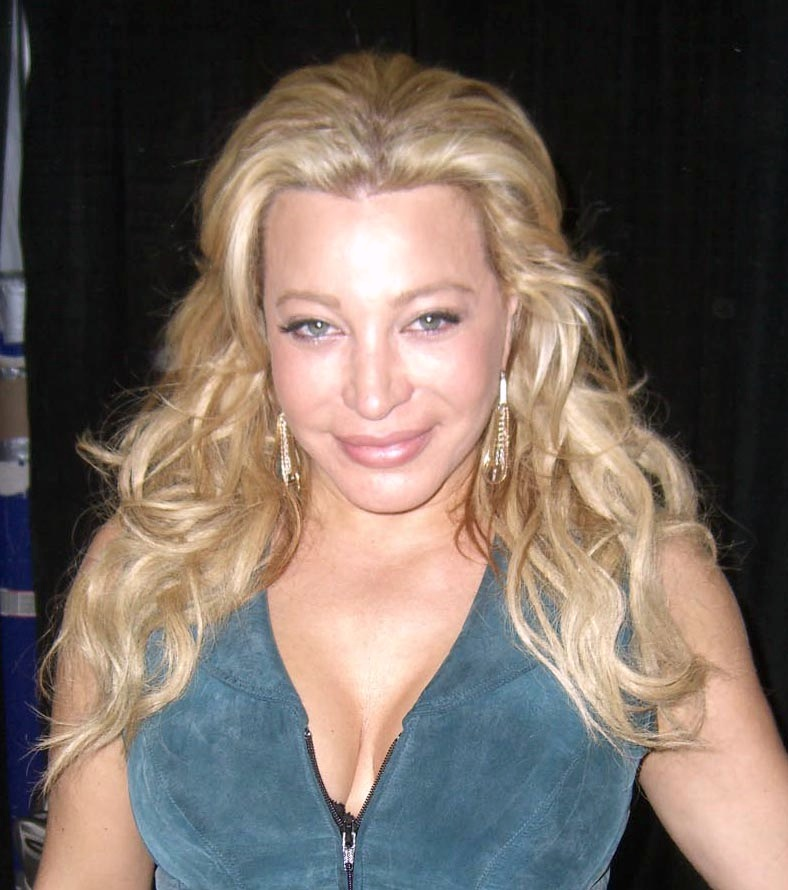 Singer and actress Taylor Dayne at the Big Apple Convention in Manhattan. Photographed by Luigi Novi. This photo may only be used if the photographer is properly credited. (See Licensing information below.)